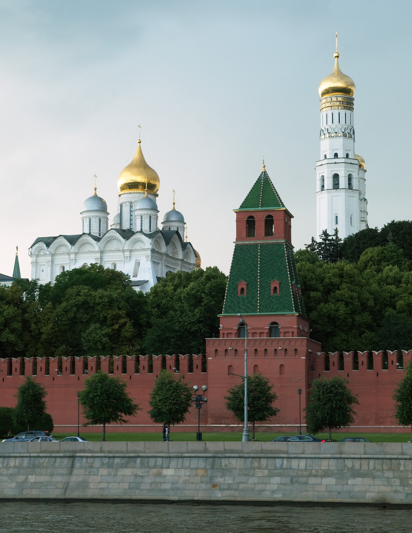 Moscow Kremlin, thunderstorm brewing